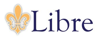 Horizontal logo